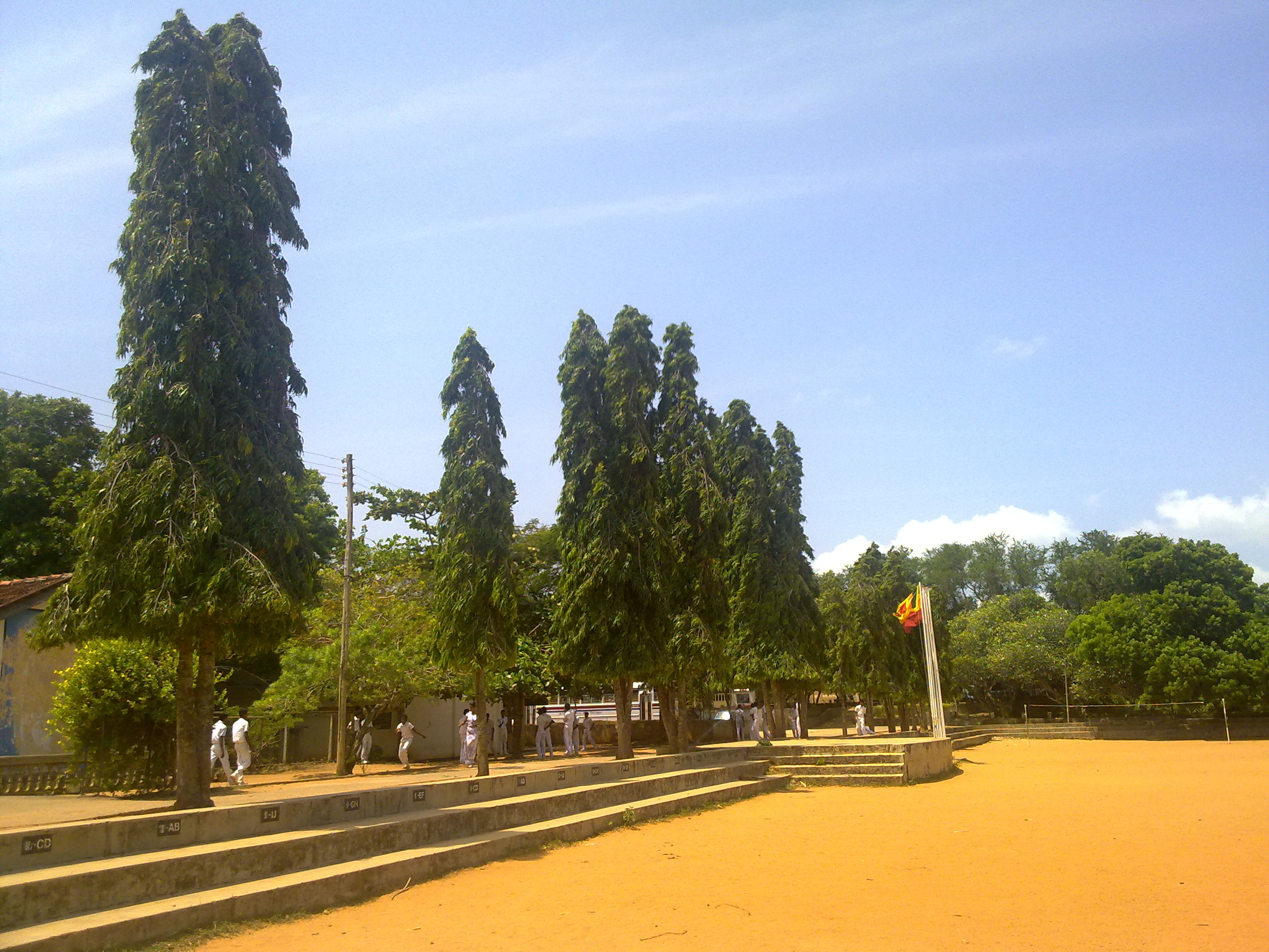 RCC Ground